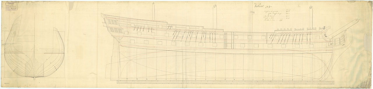 Valiant (1759) Scale: 1:48. Plan showing the body plan, basic sheer lines with superimposed longitudinal half-breadth for Valiant (1759), a 74-gun Third Rate, two-decker. Comparisons with ZAZ1913 show that this plan closely matches the ship as she was originally built. VALIANT 1759